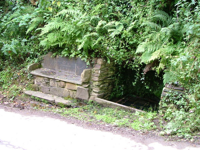 Well and seat, Coxford. The seat, at the top of a steep hill, is inscribed "Rest and be thankful" and the well has goldfish in it!